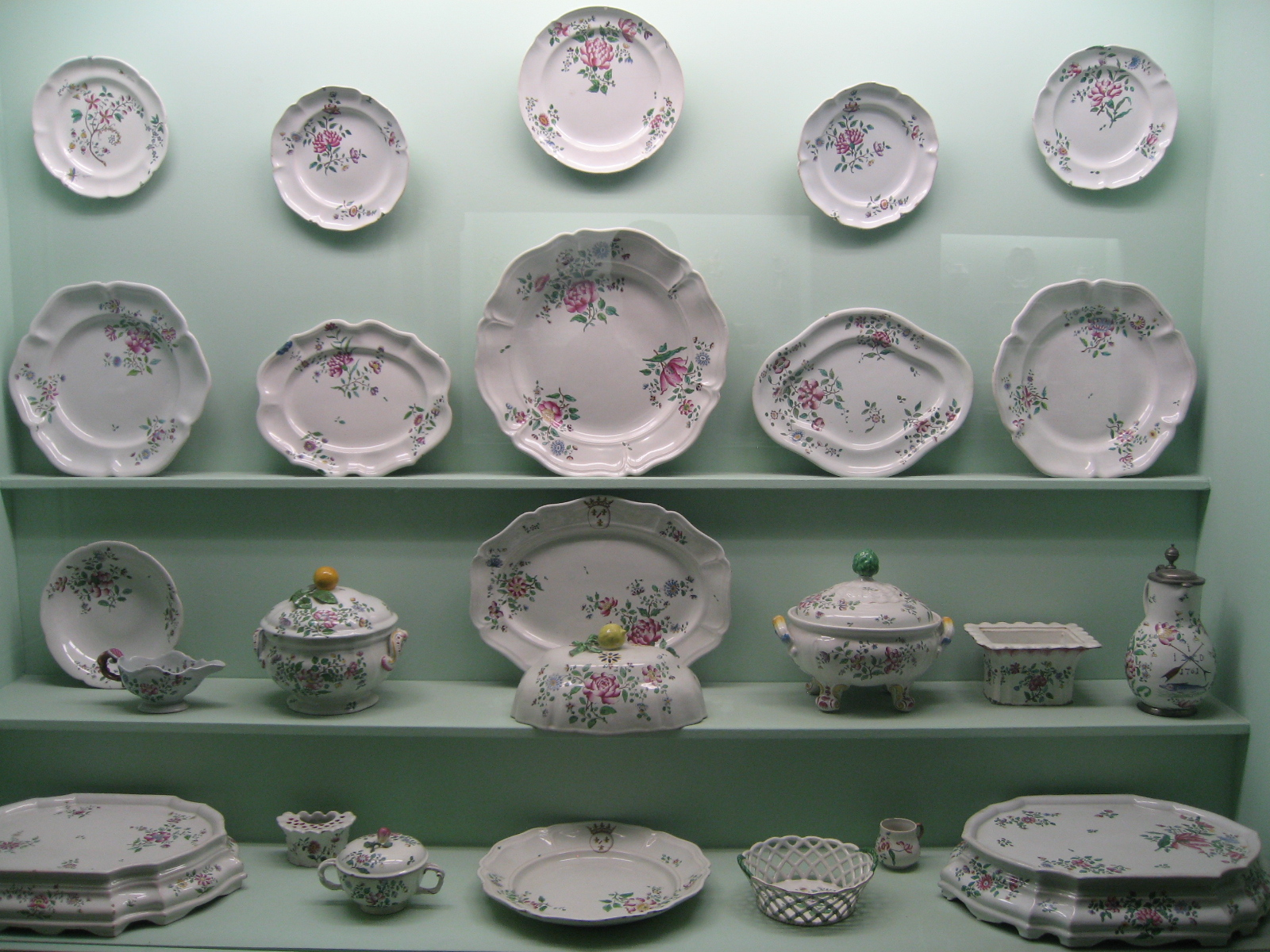 Porcelain by Paul Hannong, in the Musée des arts décoratifs de Strasbourg located on the ground-floor of Palais Rohan.